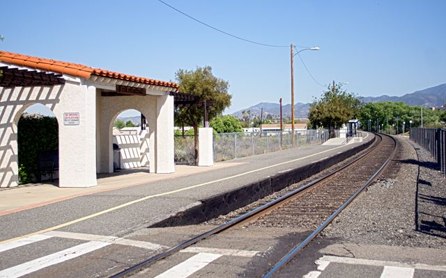 Via Princessa station, Santa Clarita, California